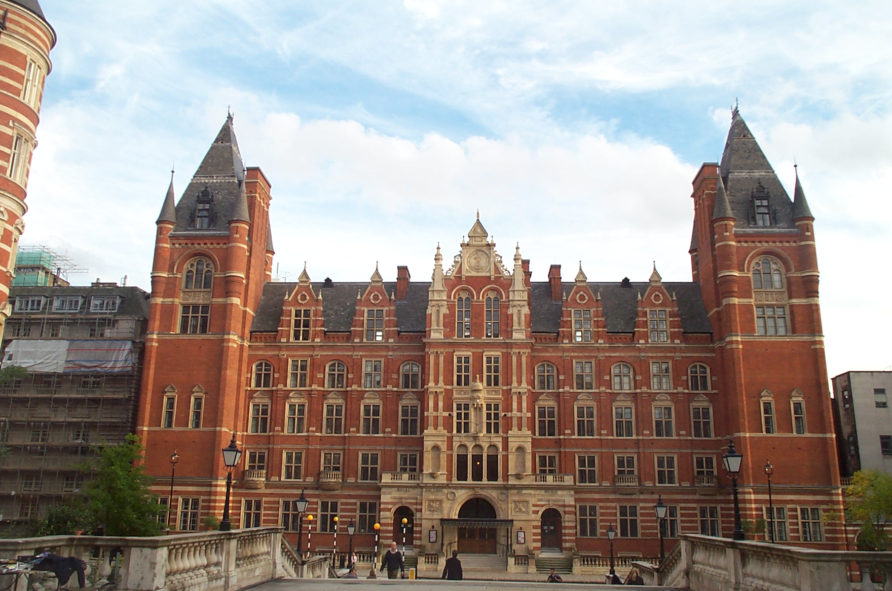 Royal College of Music front facade